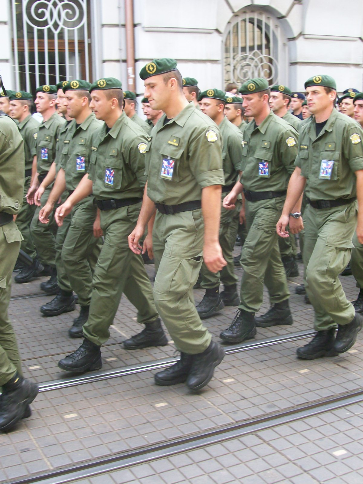 Members of the croatian Special Police Forces